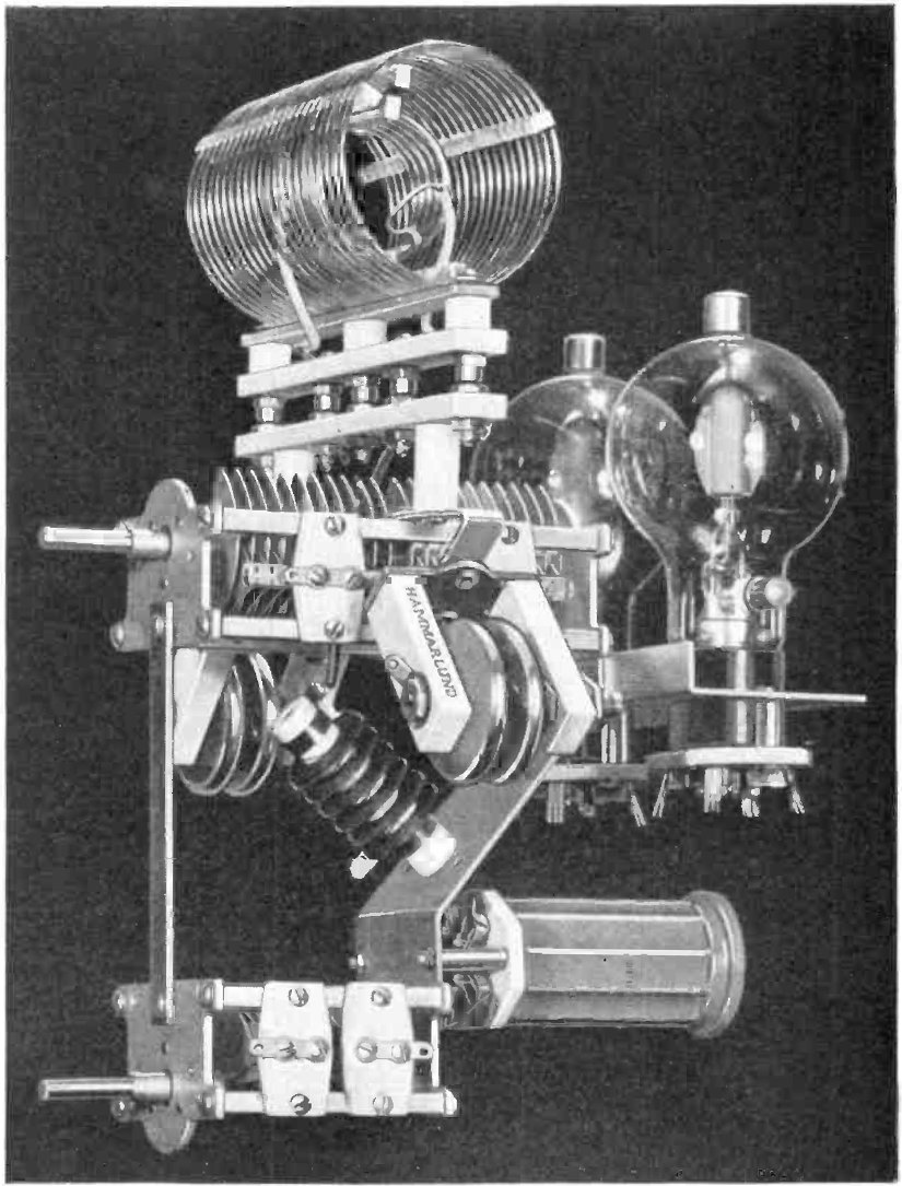 A tuned RF amplifier module for a radio transmitter, from an advertisement in a 1938 radio magazine. This consists of two power triode tubes and a tank circuit consisting of a high Q coil (top) and a variable capacitor (center). The promotional copy said it was usable up to 27 MHz.